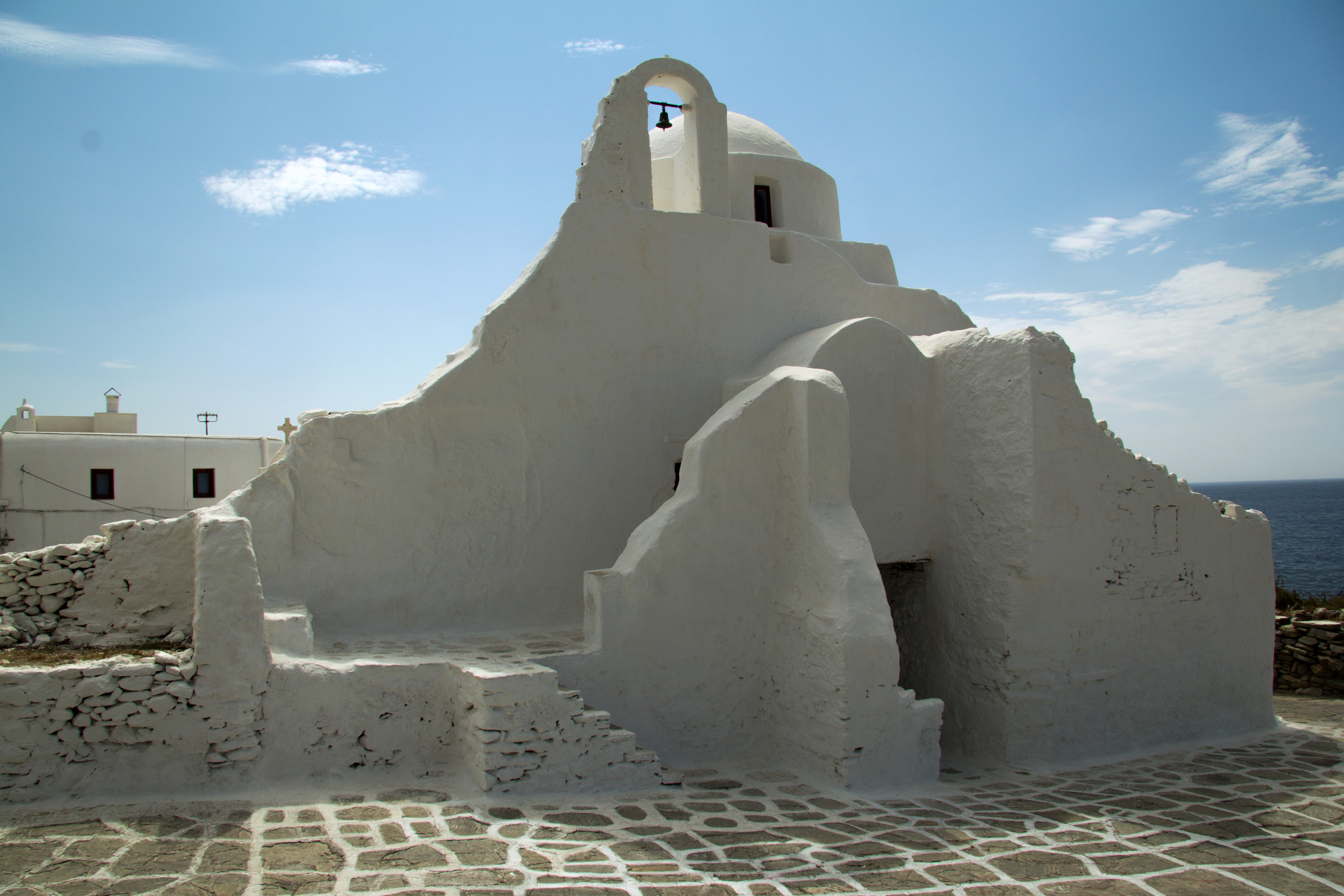 Panagia Paraportioani, Mykonos. The name Paraportiani means the inner entrance, as it was for entry into the interior of a medieval castle, therefore in Kastro. In the 15th century there were four small churches, they were connected in the following centuries, and above them was built more, thus creating a remarkable whole, in shape of the wave.